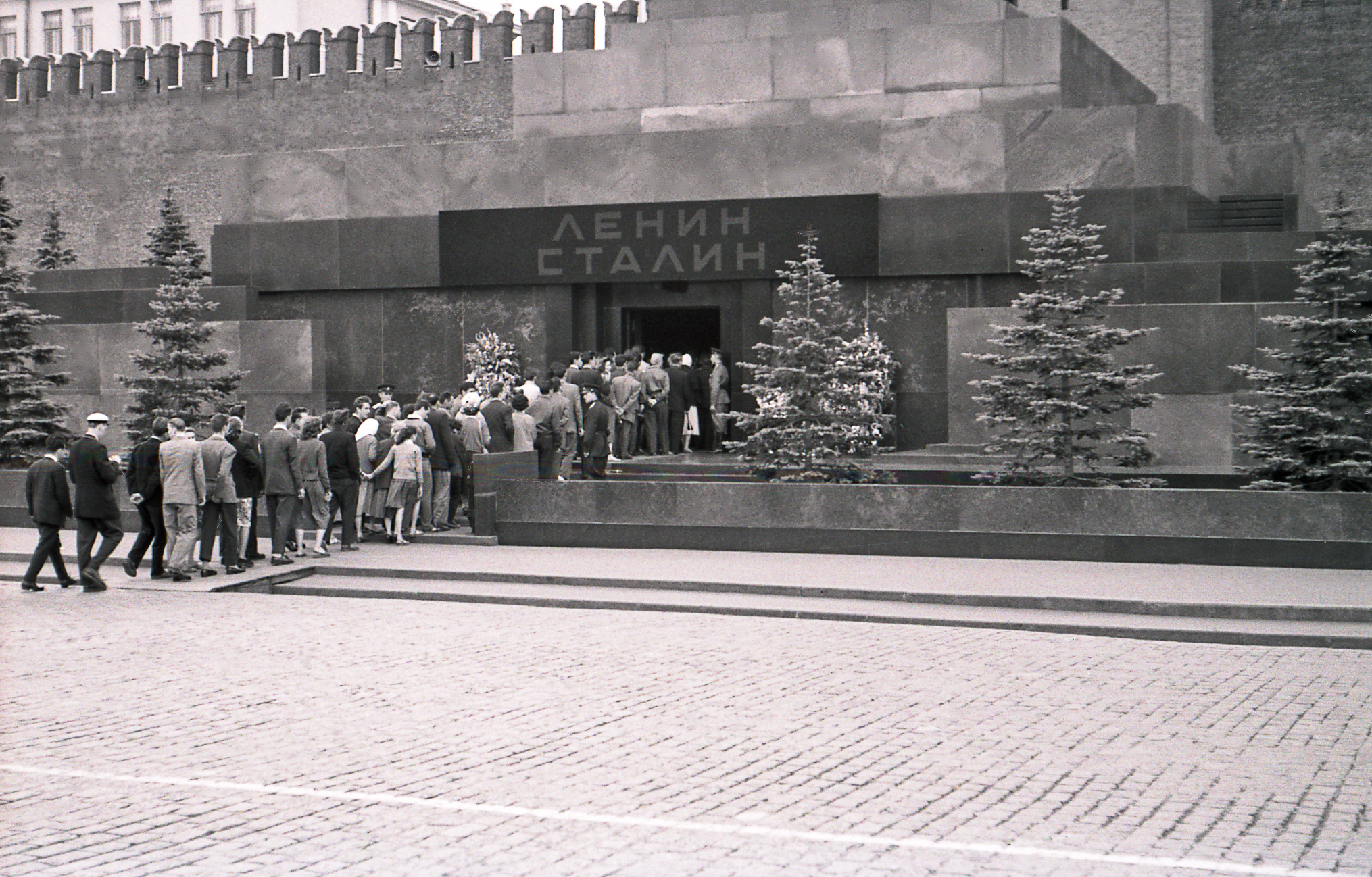 In 1957 the "Lenin-Mausoleum" on the Red Square in Moscow was also a "Stalin-Mausoleum". - You may want to have a look at my website (in German)